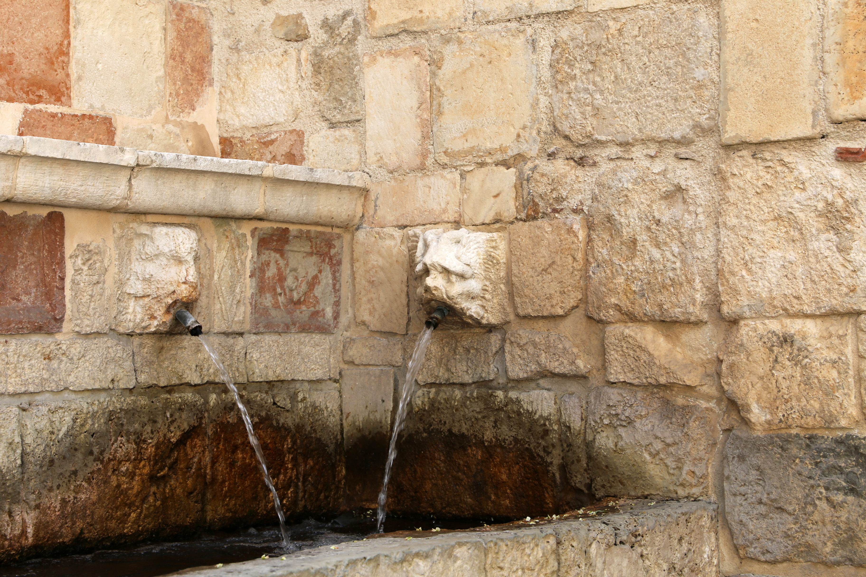 Fontana delle 99 cannelle (L'Aquila)